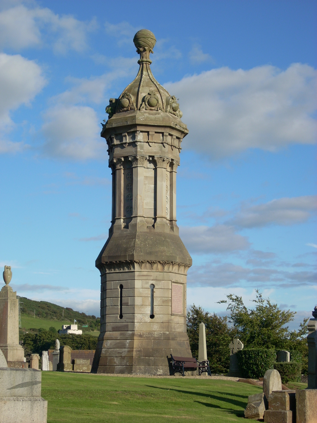 A memorial in West Kilbride cemetery dedicated to Dr. Robert Simson, a mathematician born in the town. Photograph by Dreamer84, taken on 20 August 2007.